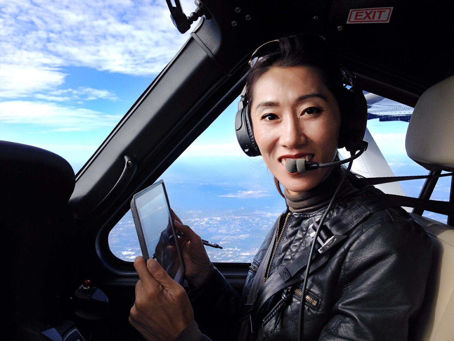 Photo of Wang Zheng